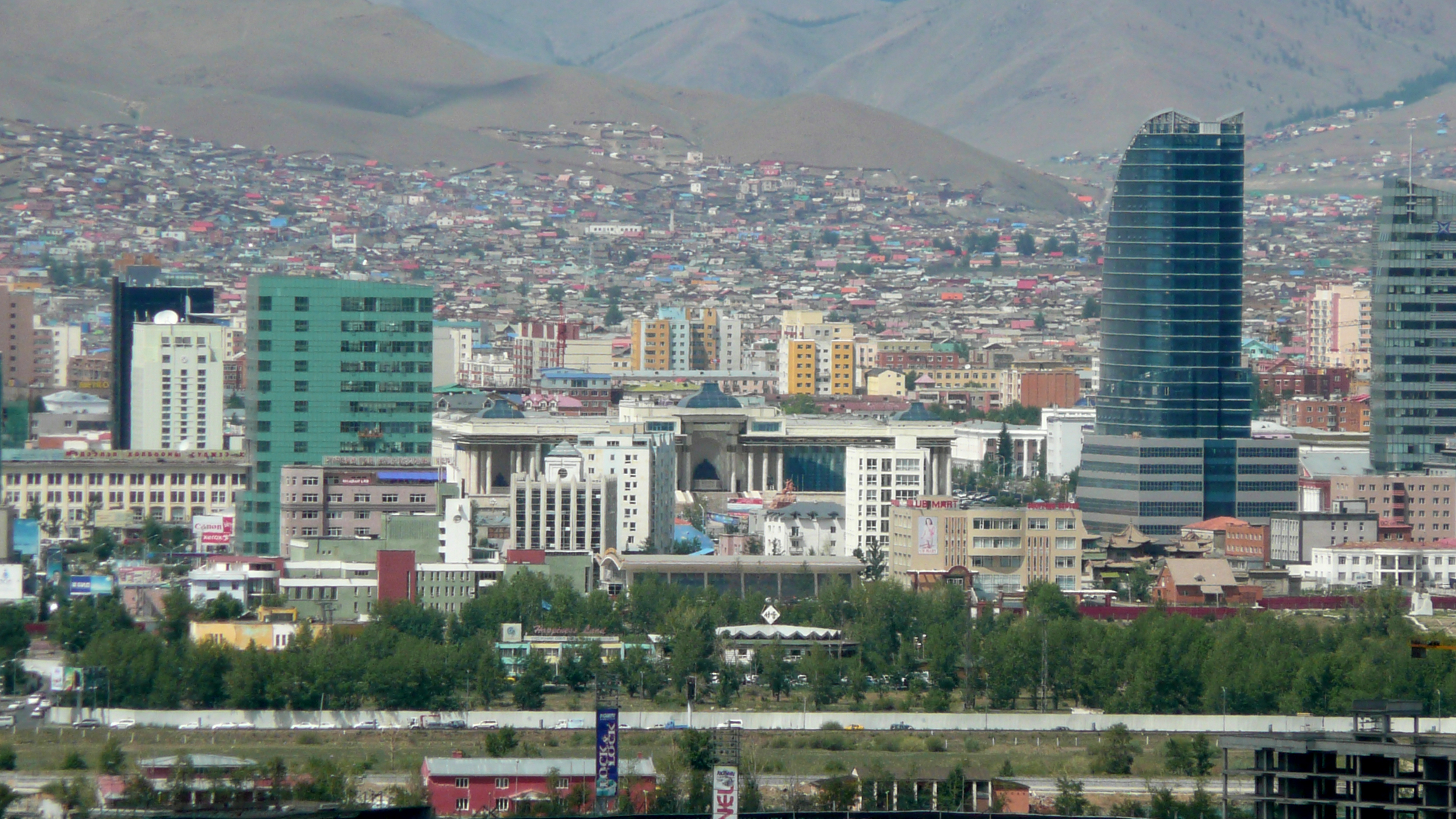 Panorama of Ulan Bator